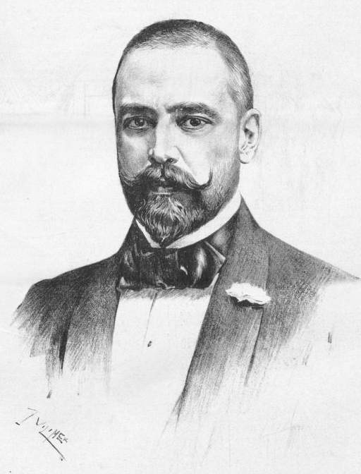 Photograph of Austrian painter Clemens von Pausinger, made 1894 or earlier by Josef Löwy.